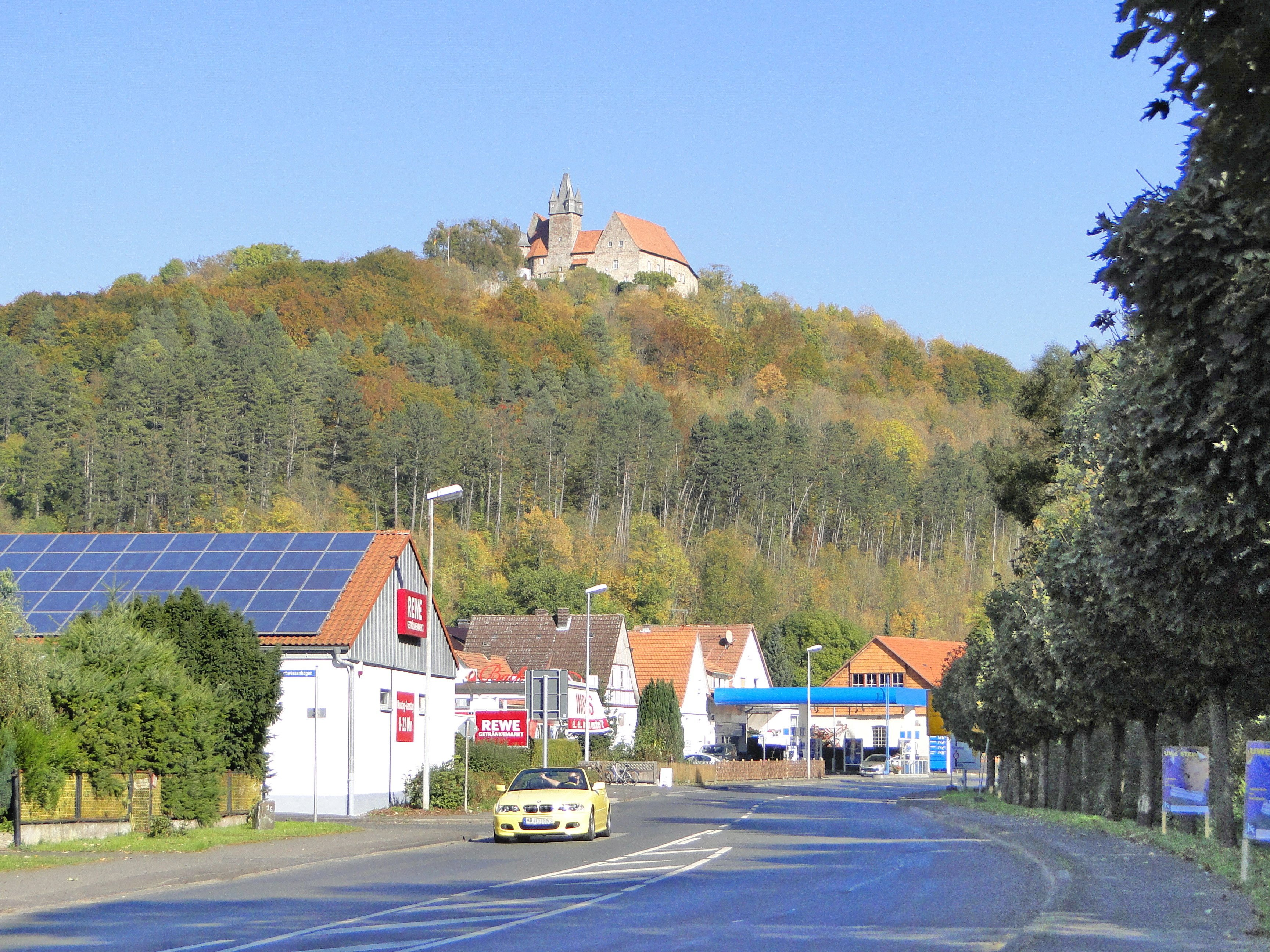 View from the Melsunger Straße in Spangenberg, Hesse, Germany, looking towards Schloss Spangenberg.